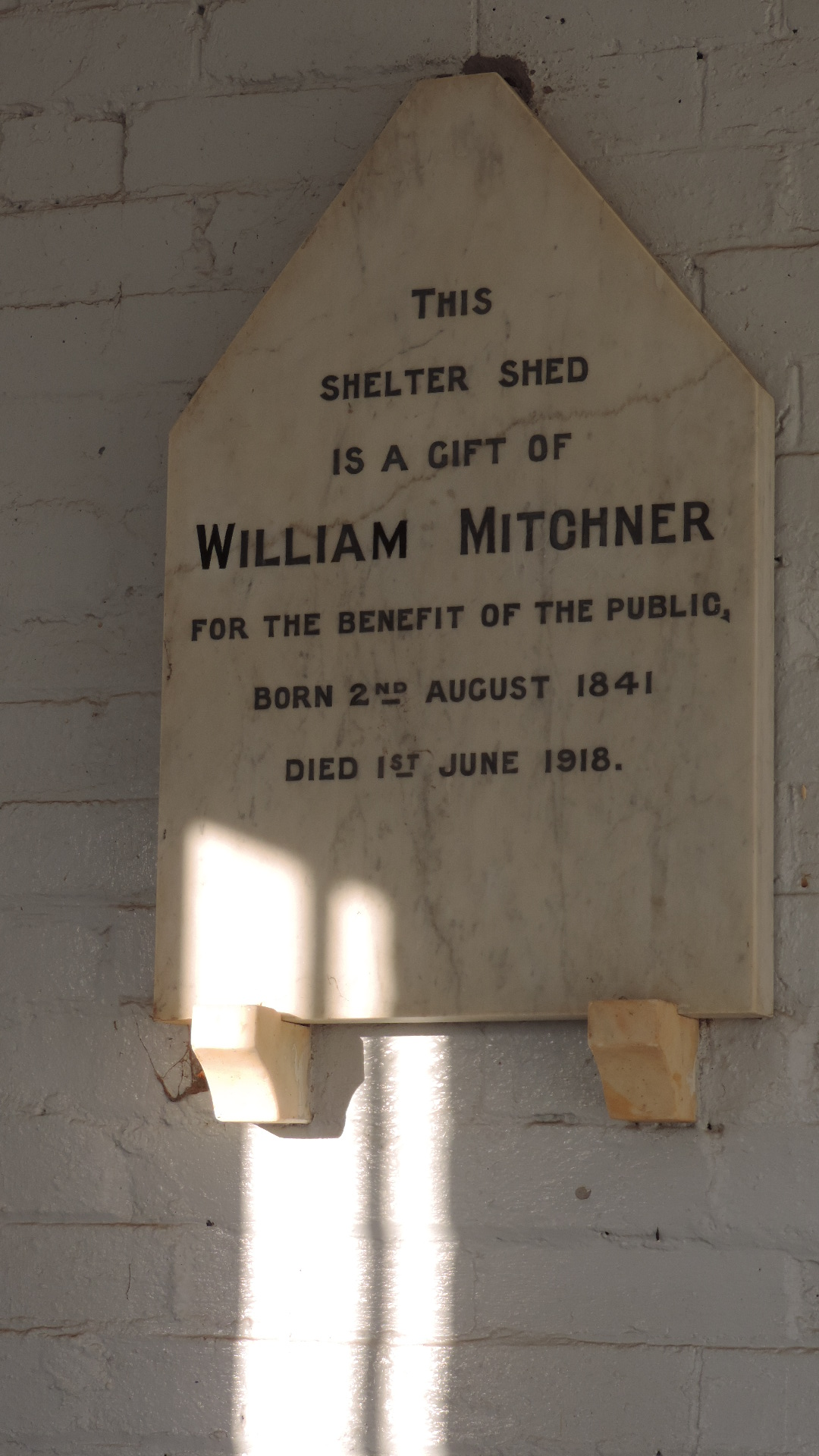 Plaque about William Mitchner, within the shelter he funded, Allora Cemetery, 2015